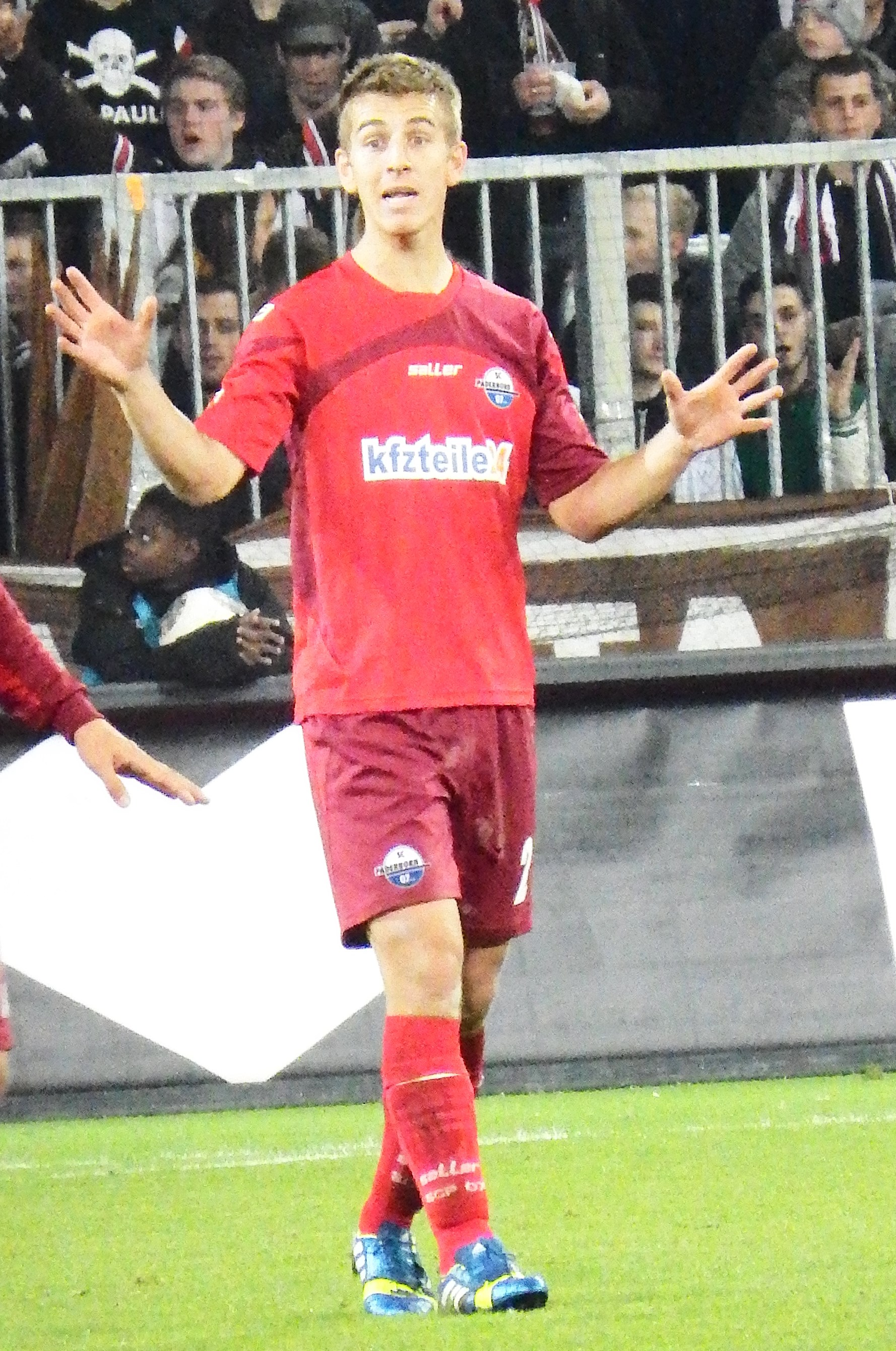 Uwe Hünemeier as Player of SC Paderborn